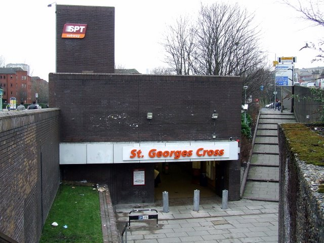 St George's Cross subway station Original description: St George' Cross underground station Located on a traffic island at the cross. See also NS5866 : St George's Cross underground station.